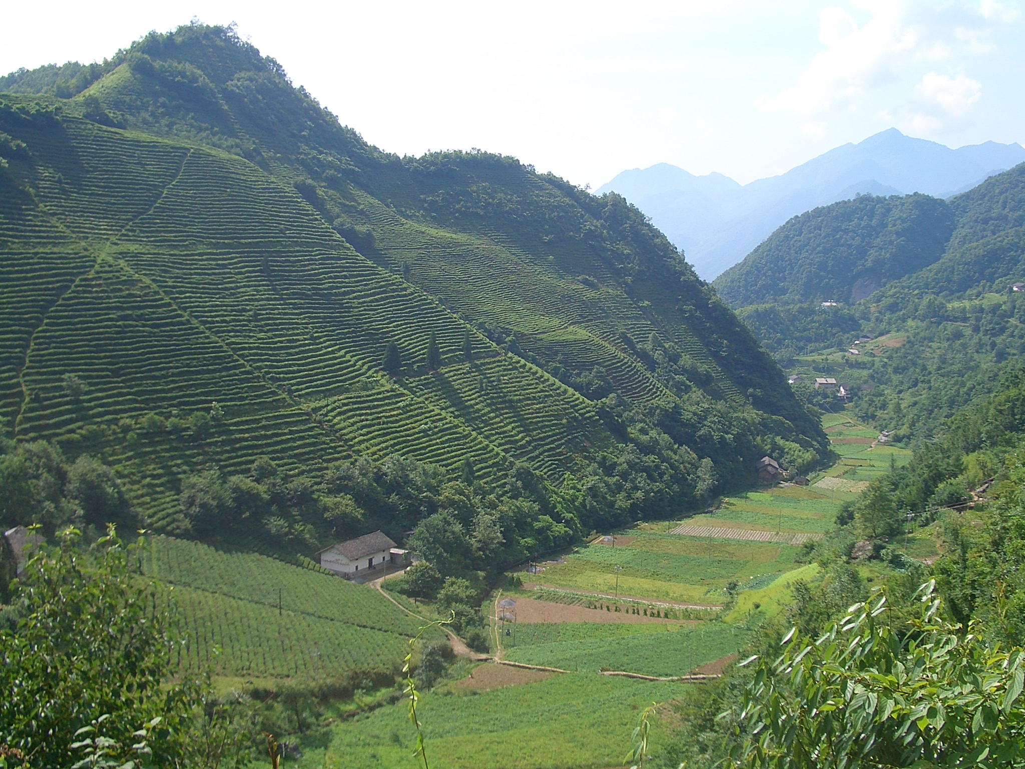 The slopes of the valley (along which G209 runs) north of Muyu, covered with woods and tea plantations